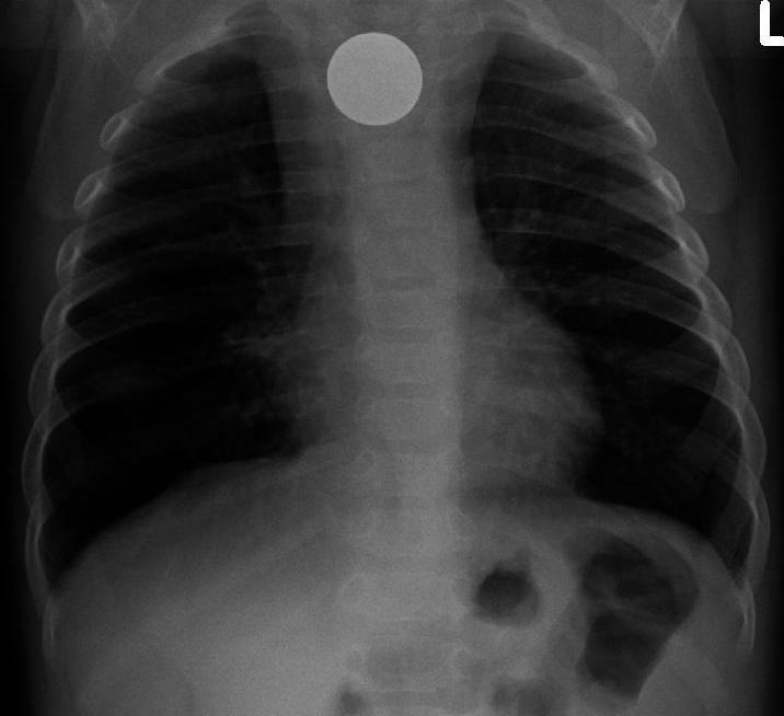 A coin seen on AP CXR in the esophargus ( a US [penny)